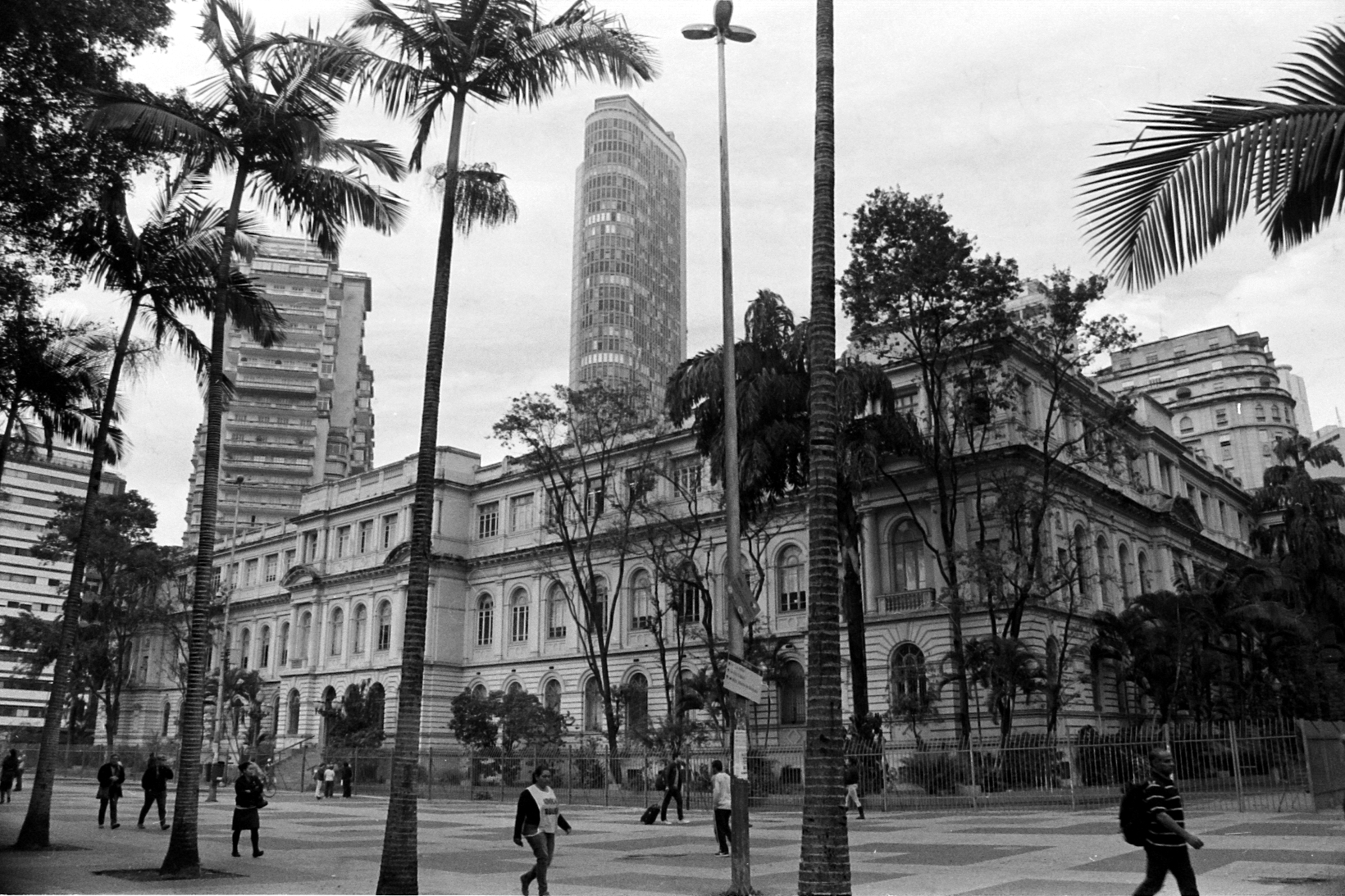 Casa Caetano de Campos with the Italia building in the background